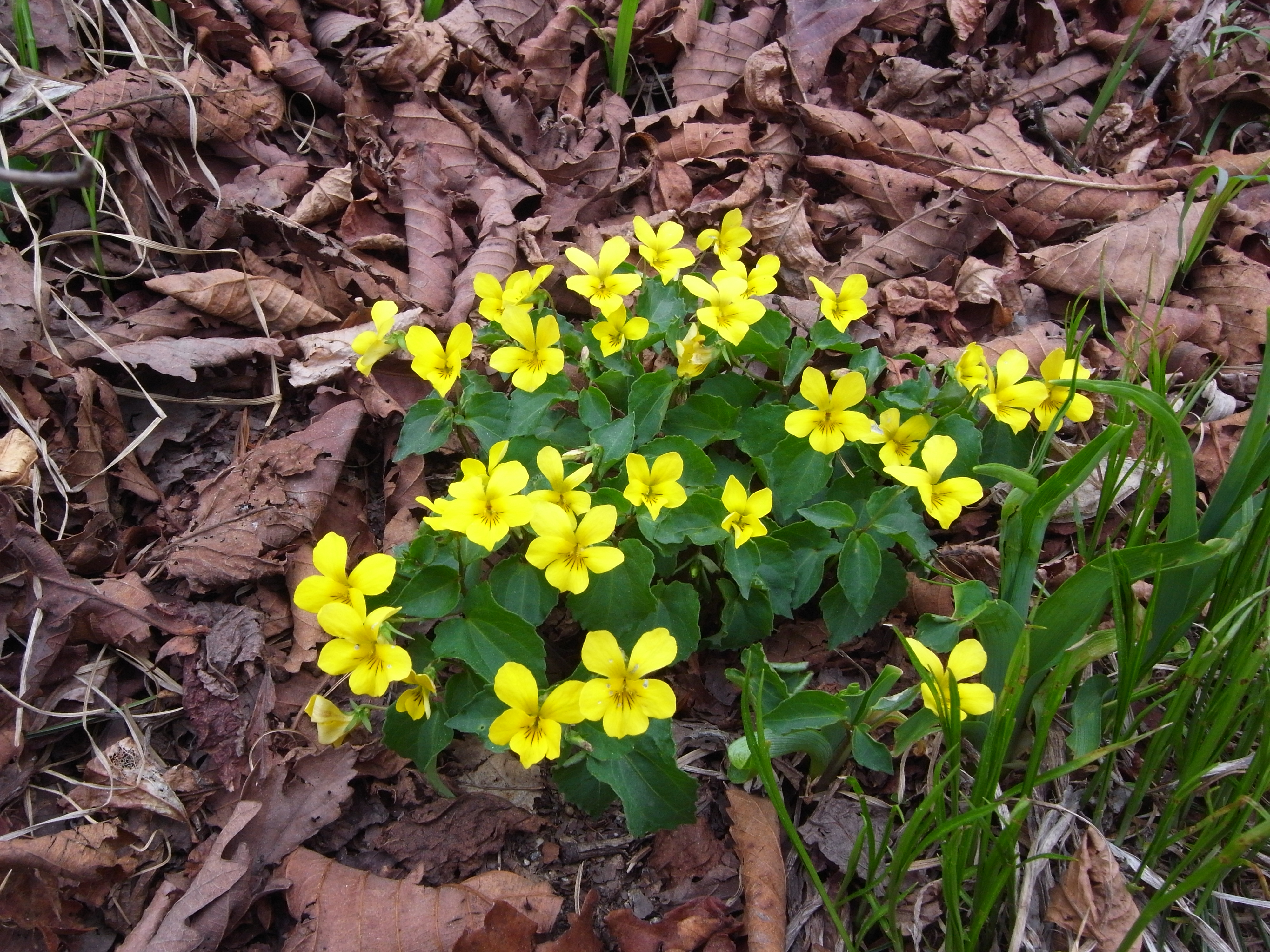 Viola orientalis, Jirisan